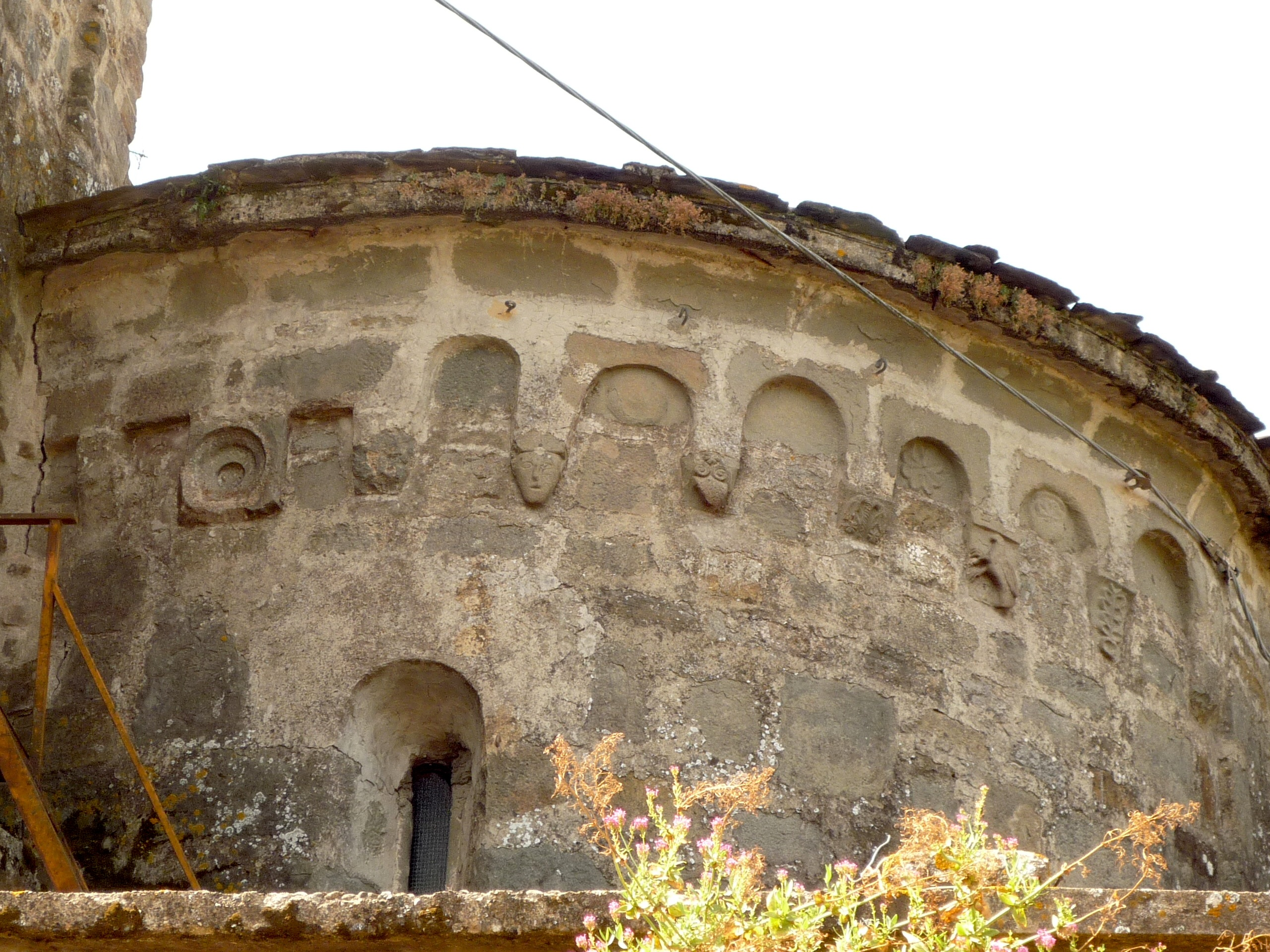 Podenzana (MS), Montedivalli, Pagliadiccio. Detail of the Romanesque apse of the church of S. Andrea; the Lombard band is decorated.